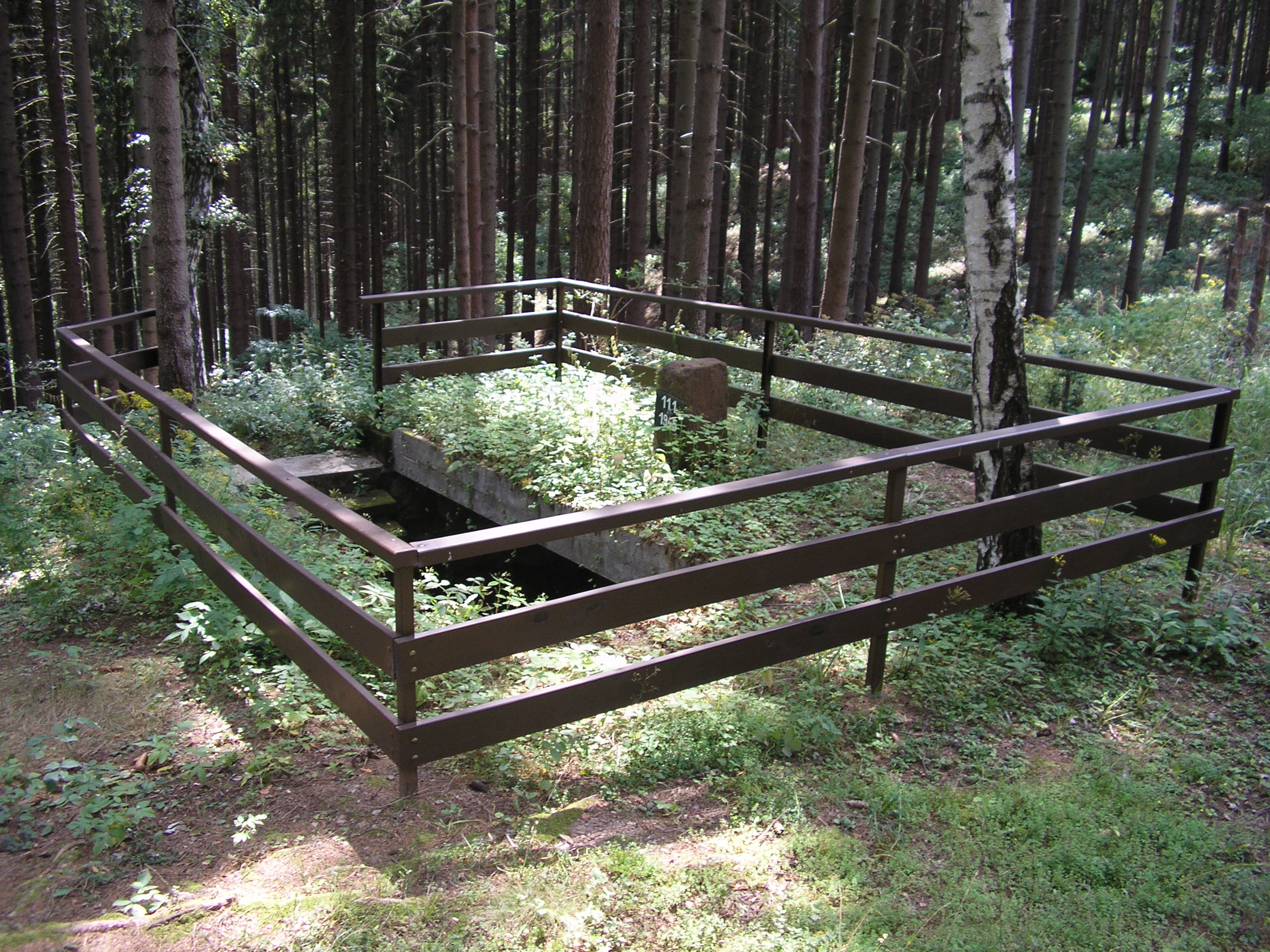 A zemlyanka near Nýrov, Blansko District, Czech Republic